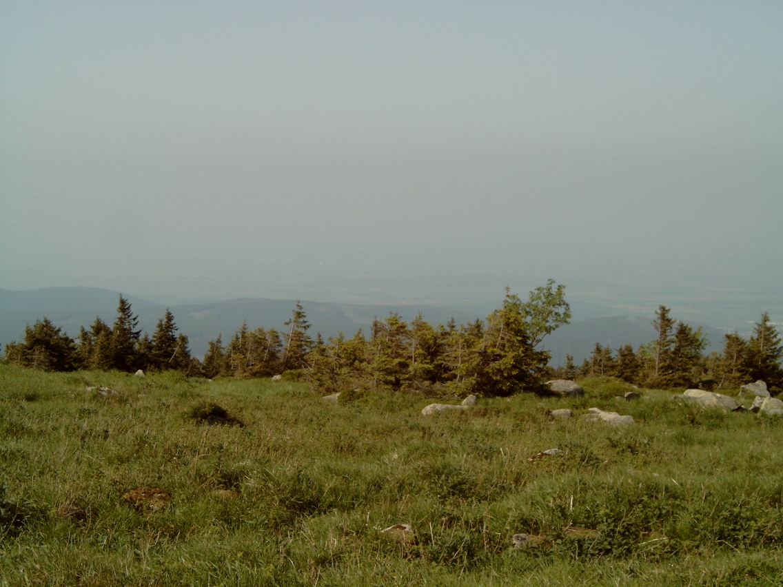 "Brocken", timberline